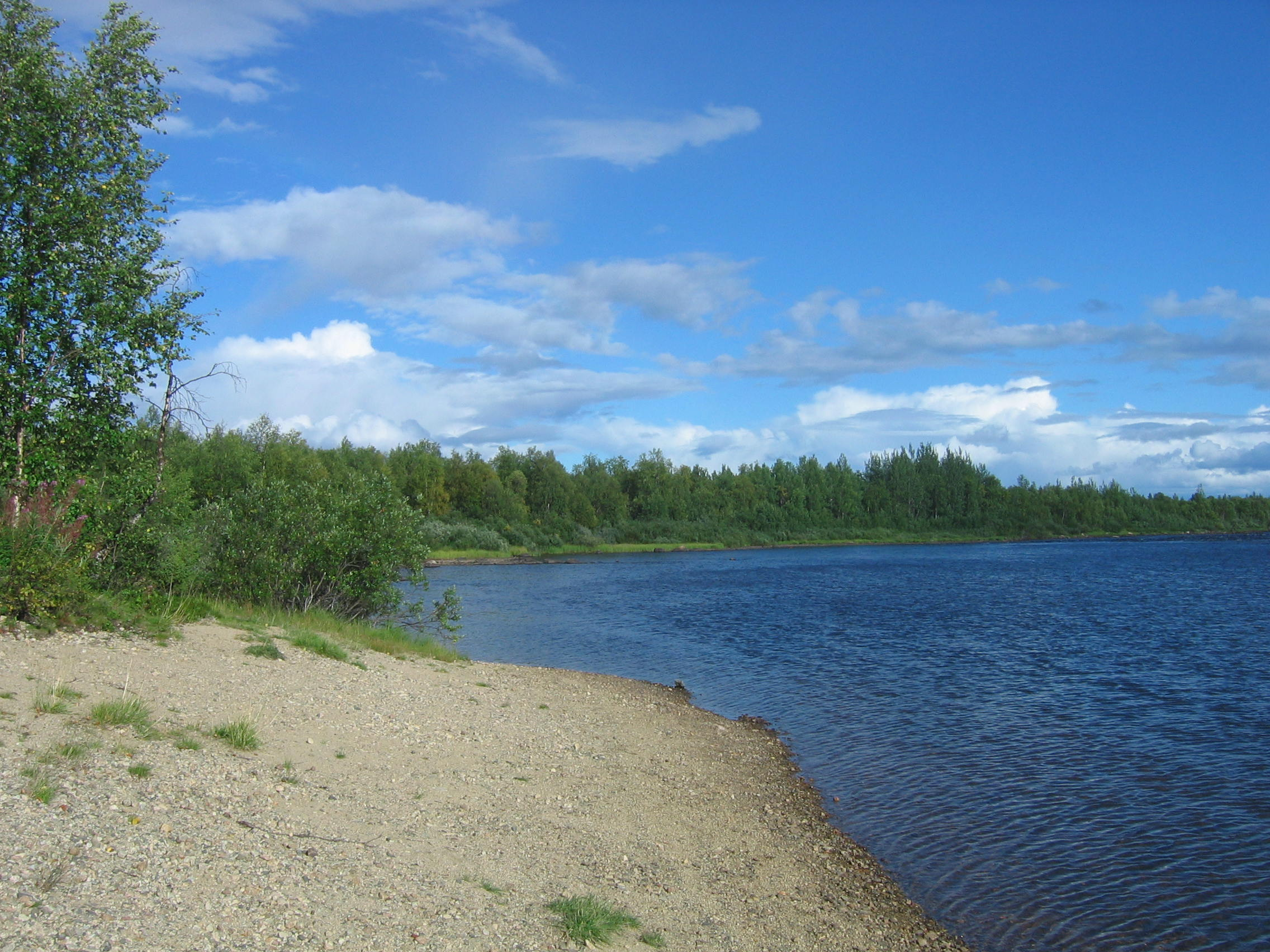 The river Könkämäeno in Enontekiö, Finland, in the Järämä area.